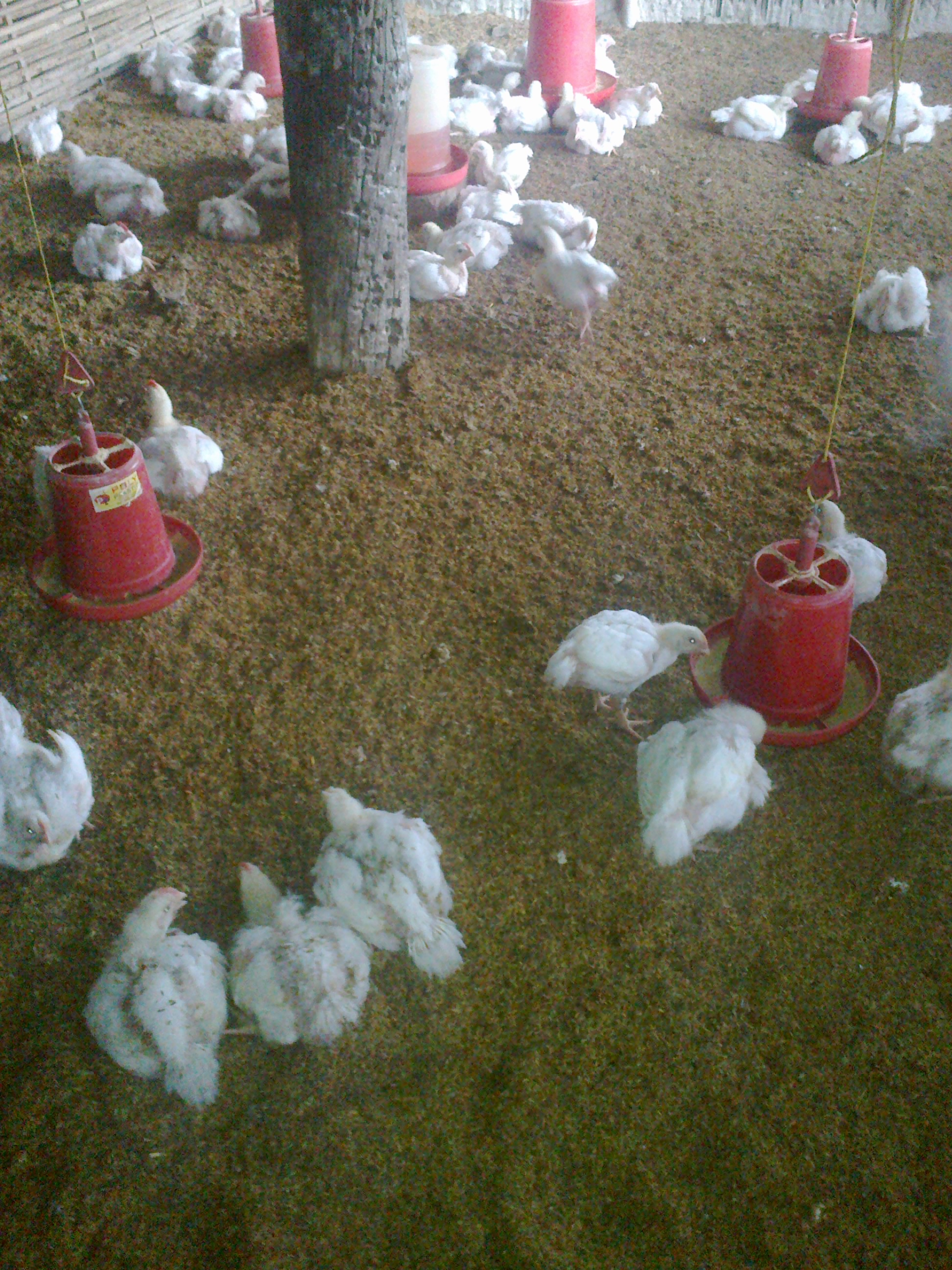 Poultry Farming in Nepal.